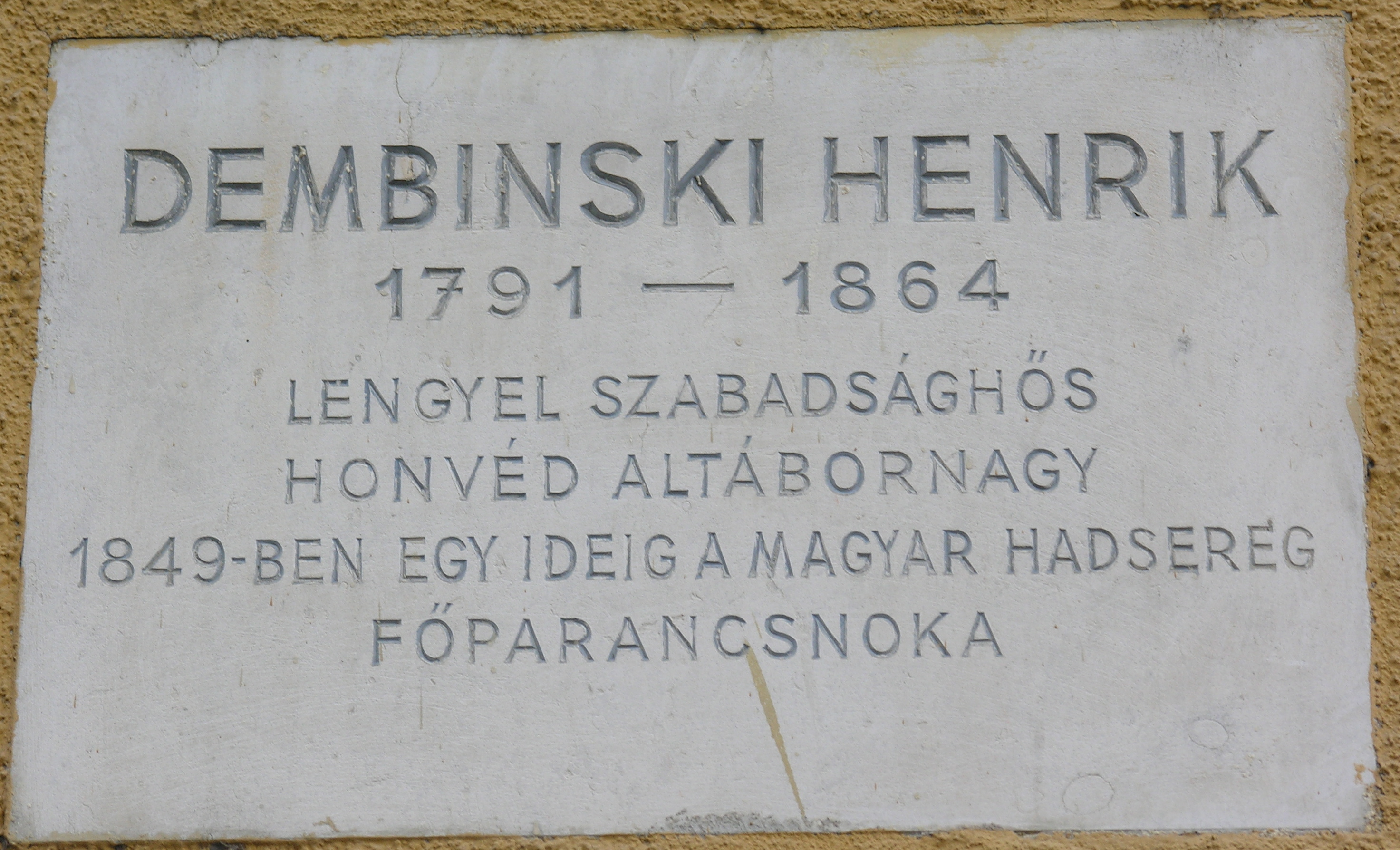 Commemorative plaque of Henryk Dembiński in Budapest District VII, Dembinszky Street No 54